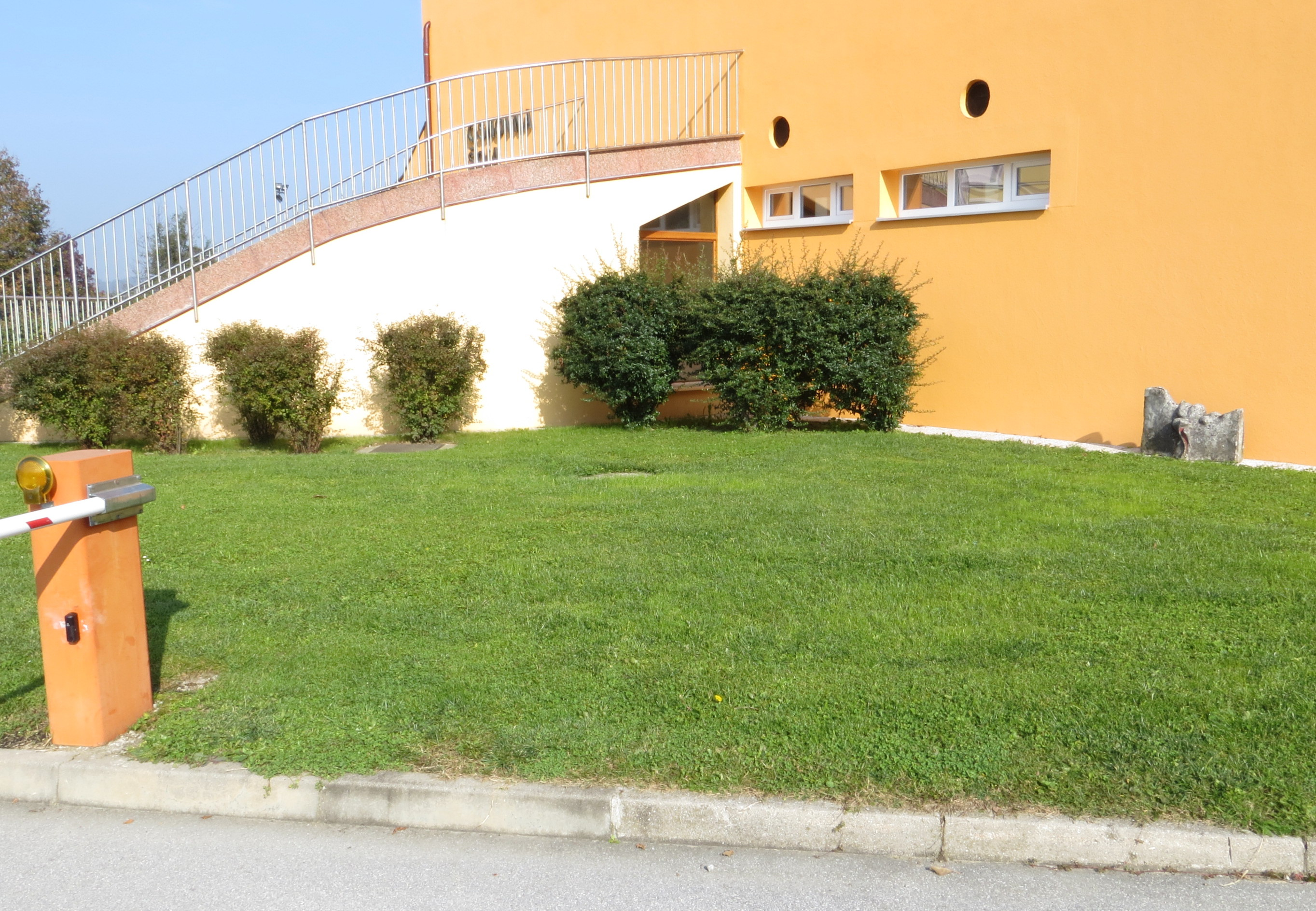 Primary School Mass Grave (Slovene: Grobišče pri osnovni šoli) in Bistrica ob Sotli, Municipality of Bistrica ob Sotli, Slovenia